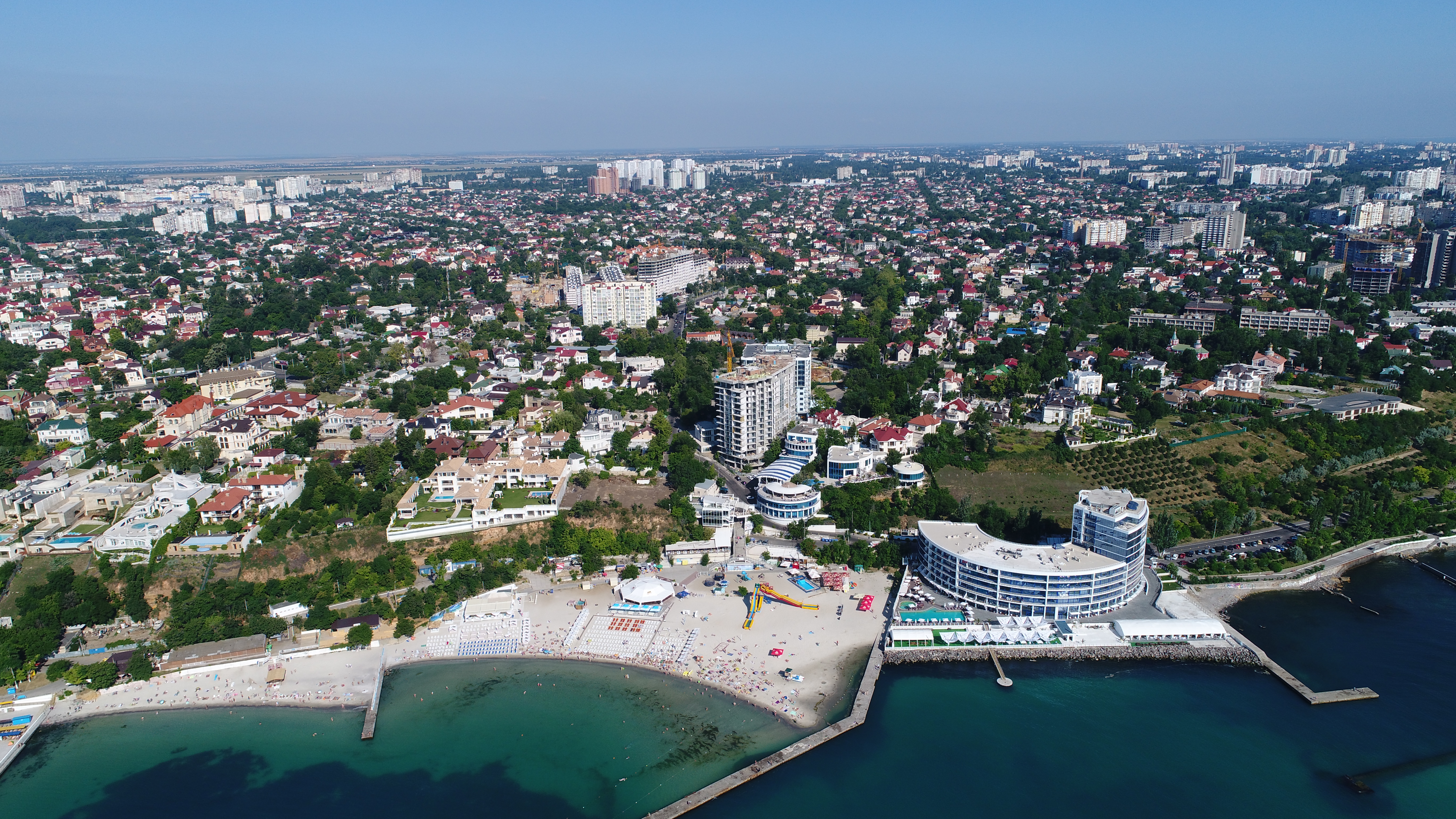 Beach Chayka, 11th Fontan Station, Odessa